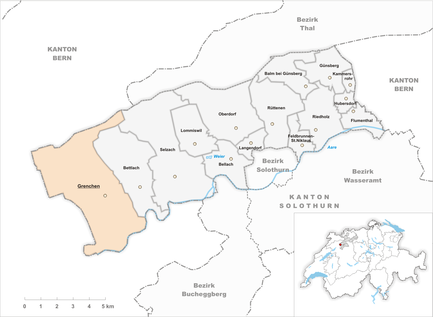 Municipality Grenchen